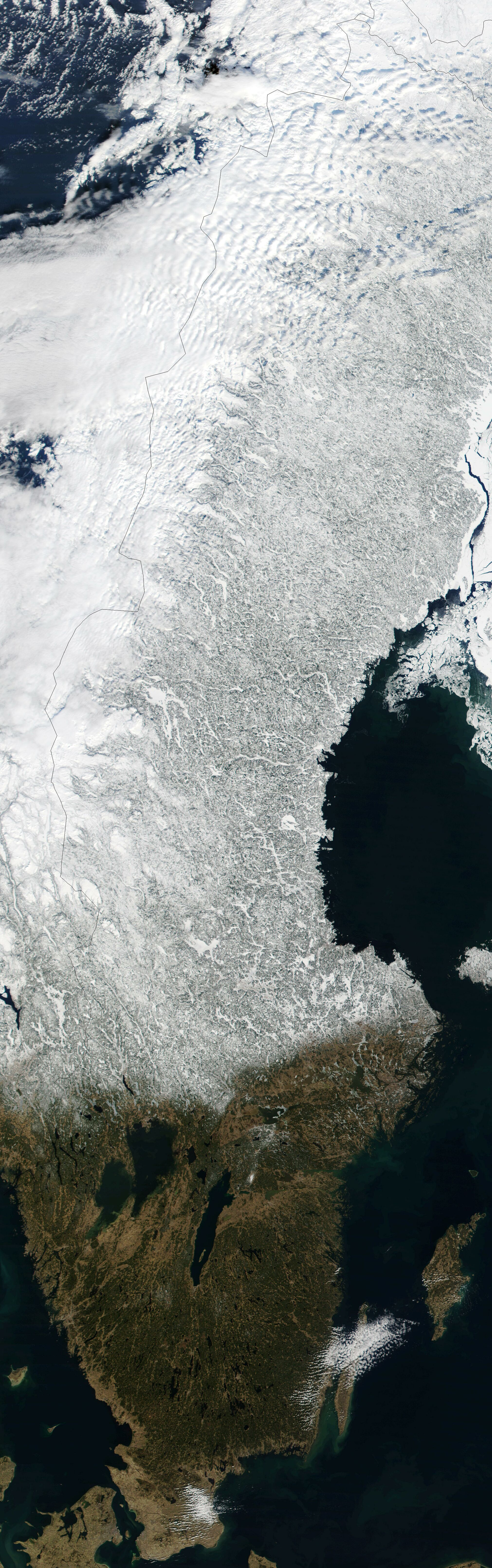 Satellite image of Sweden in March 2002. Cropped and rotated image.